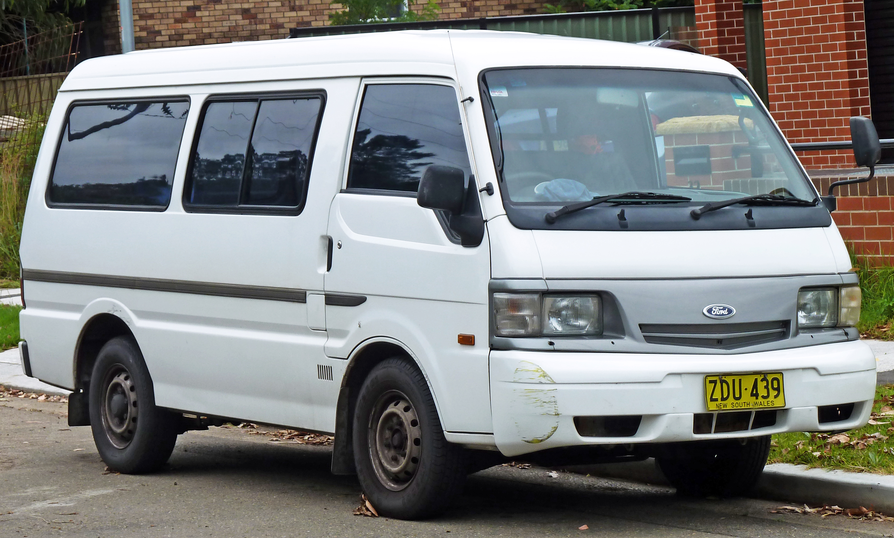 1999 Ford Econovan (JH) Maxi MWB van. The grille has been replaced with the Mazda E2000 version. Photographed in Sans Souci, New South Wales, Australia.